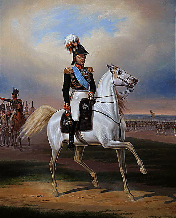 Ivan Paskevich on horseback